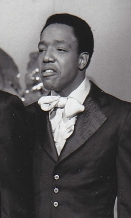 Paul Williams of The Temptations performs on The Ed Sullivan Show.